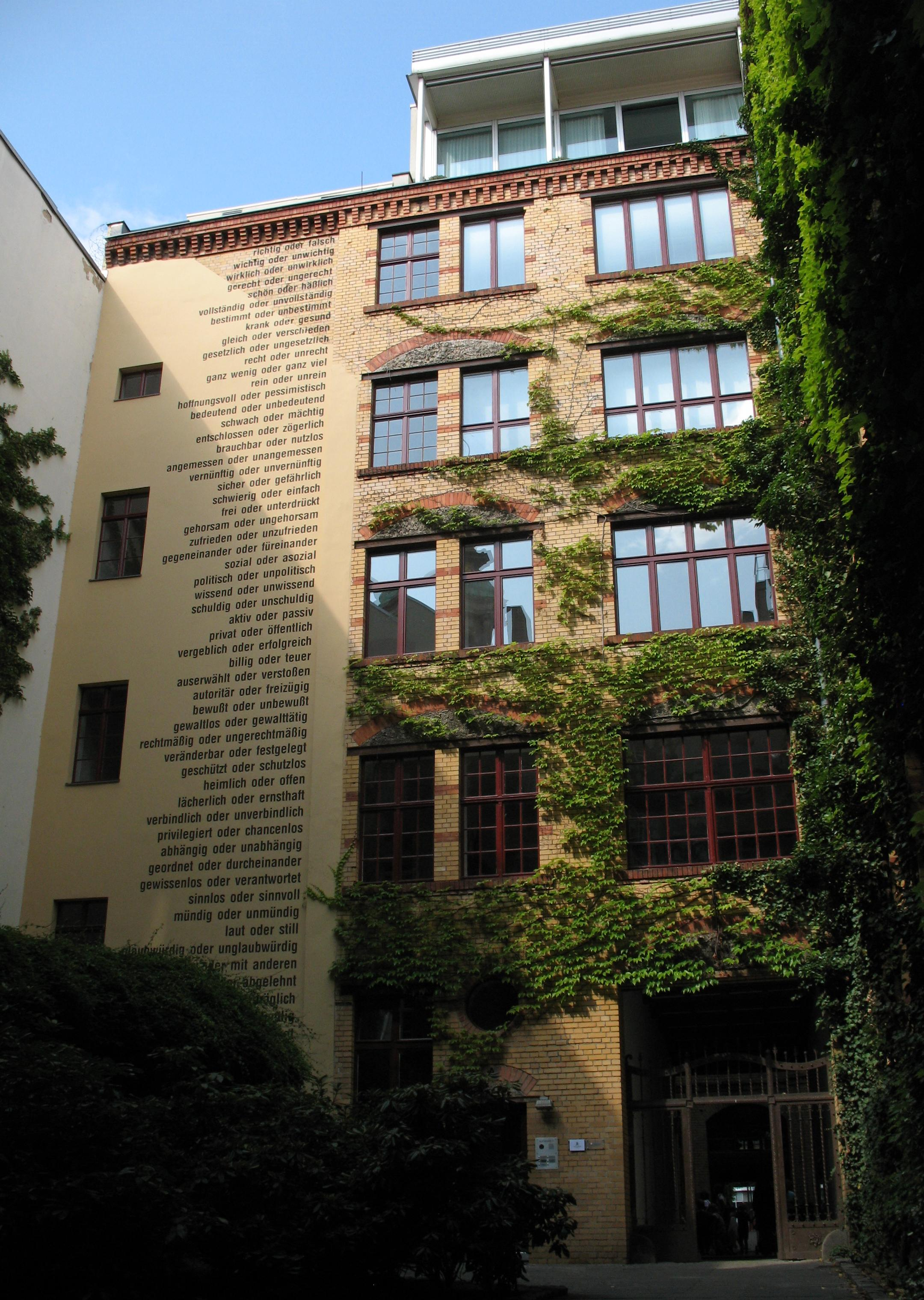 "Sophie-Gips-Höfe" in Berlin-Mitte, Germany